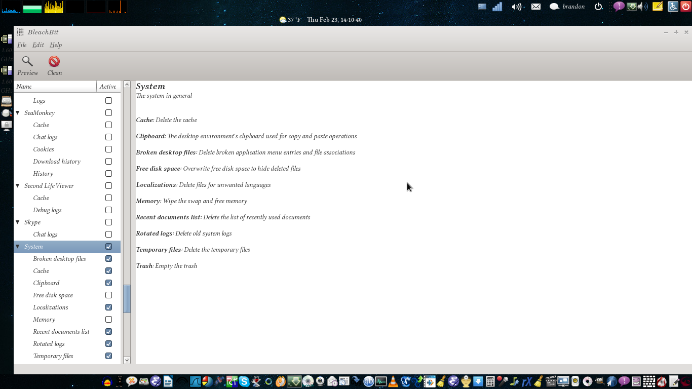 Screenshot of the Bleachbit UI